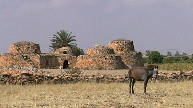 joined tazotas in Laabidat (caïdat Had Oulad Frej) in Morroco Walon: tazotas raloyeyes a Laabidat